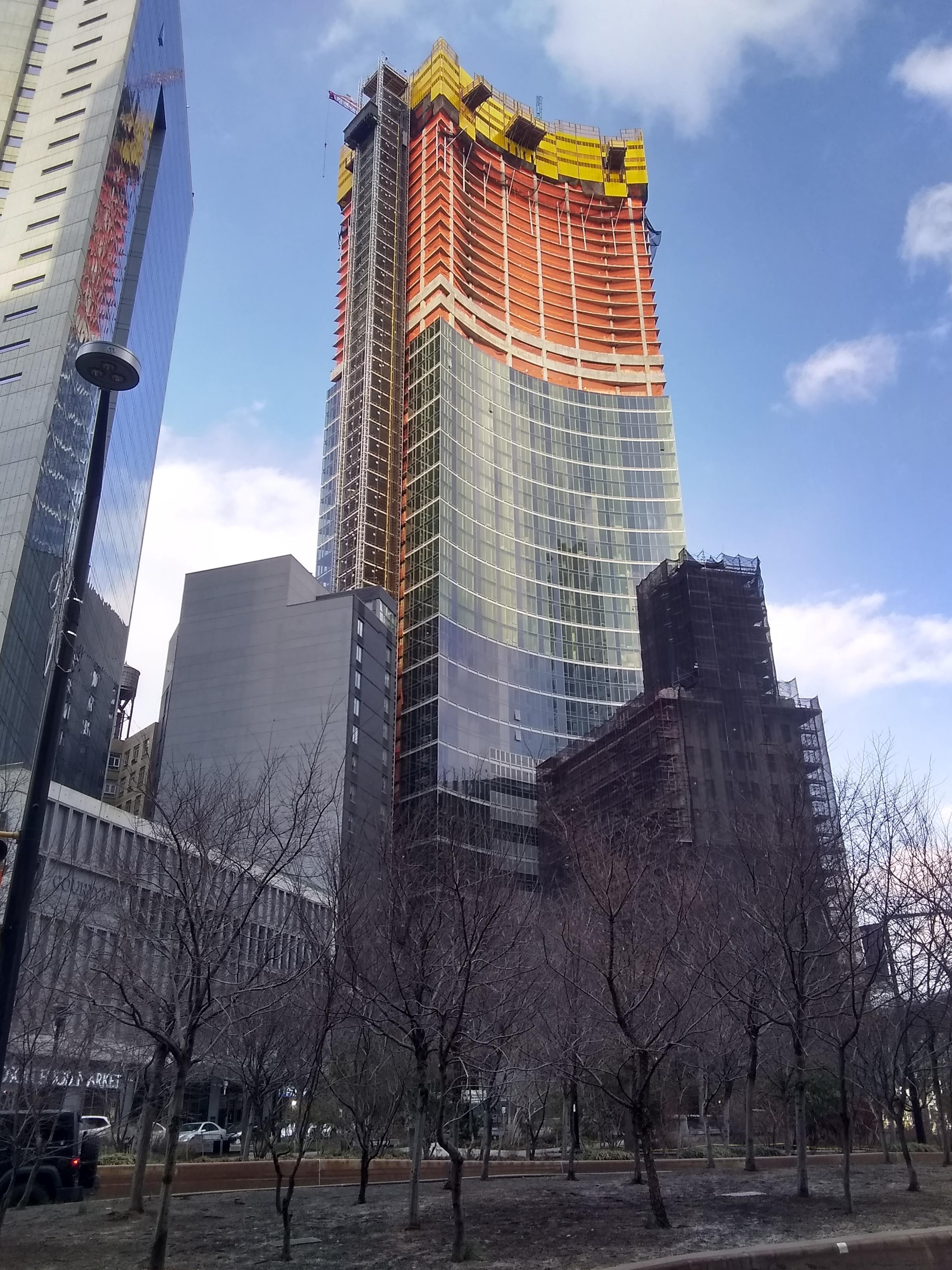 Queens Plaza North in Queens, New York